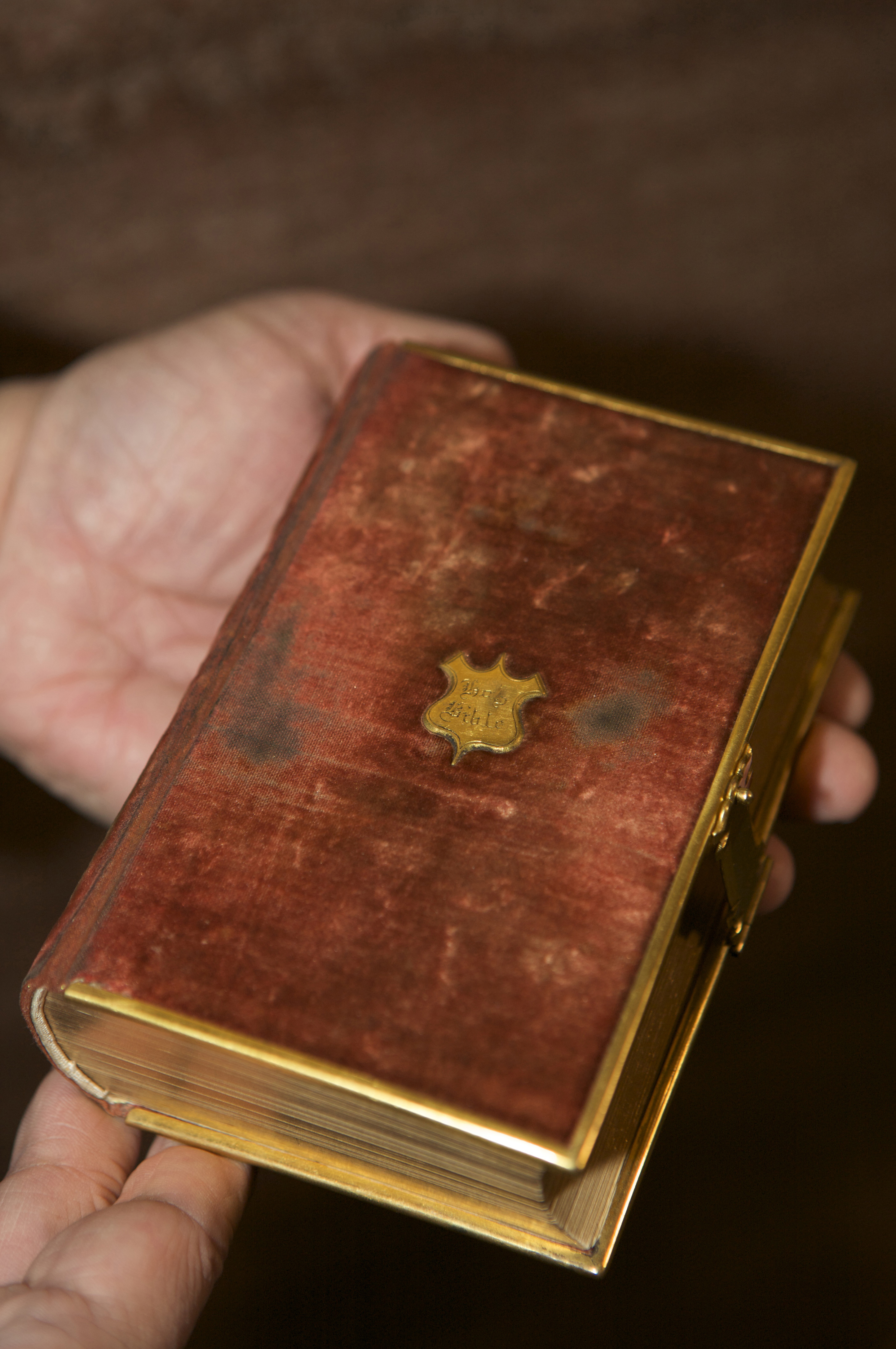 The bible used by Abraham Lincoln for his oath of office during his first inauguration in 1861.